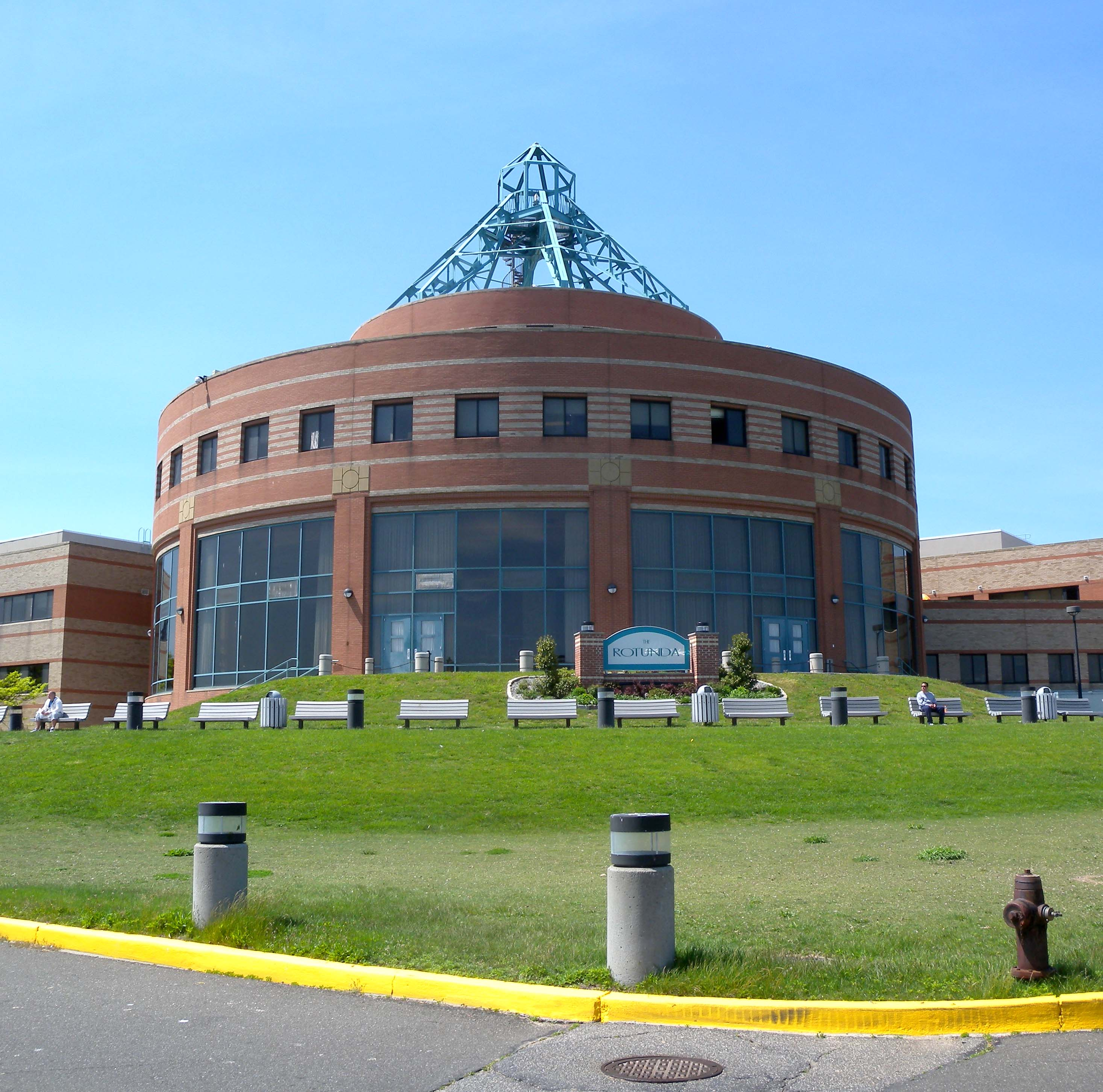 Looking northwest at The Rotunda of Kingsborough Community College on a sunny midday.